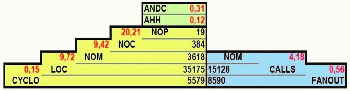 Overview Pyramid Inheritance scheme